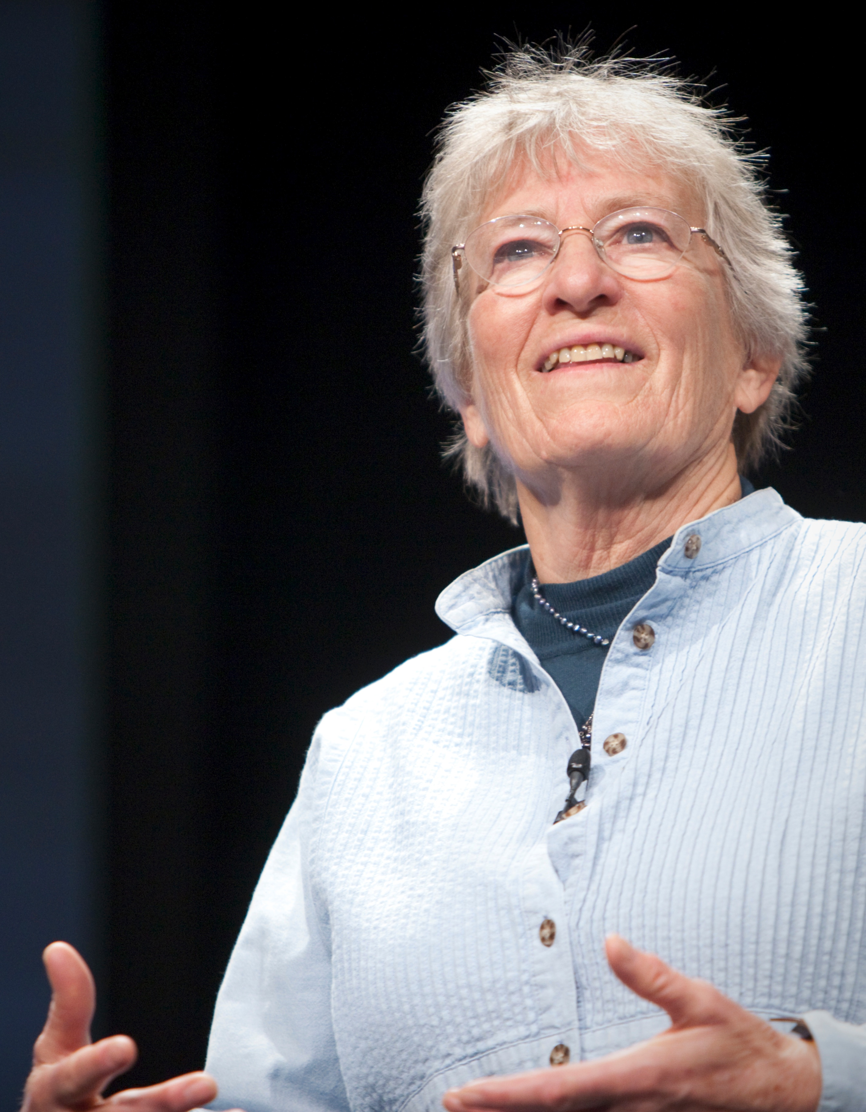 photo by Kris Krüg